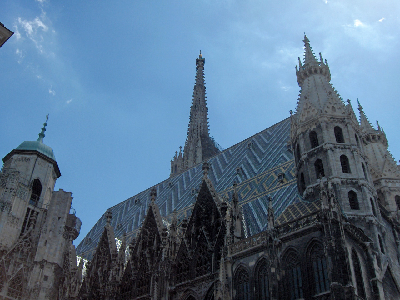 Roof of the Stephansdom in Vienna, Austria